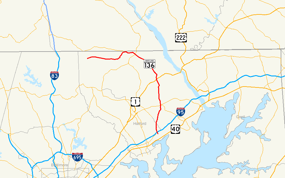 Map of Maryland Route 136